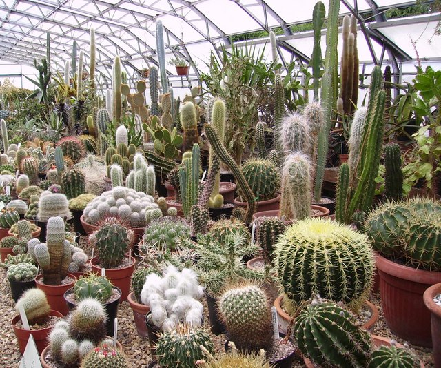 Cacti ,Chester Zoo. Chester Zoo has some great gardens.